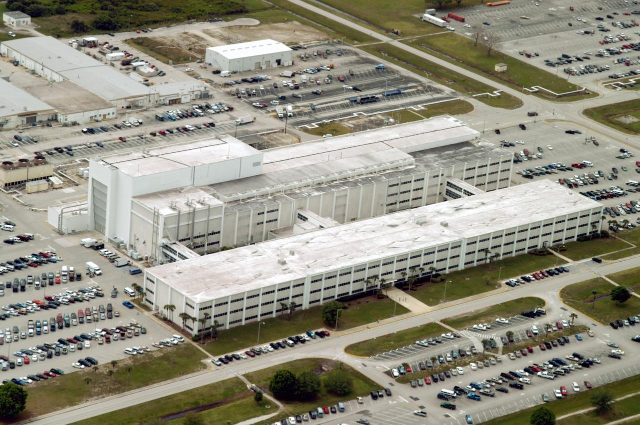 A helicopter view of NASA's Operations and Checkout Building, a factory located at Kennedy Space Center